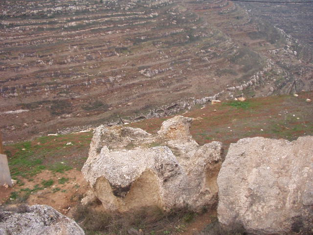 A_Rock-Hewn_Altar_Near_Shiloh3